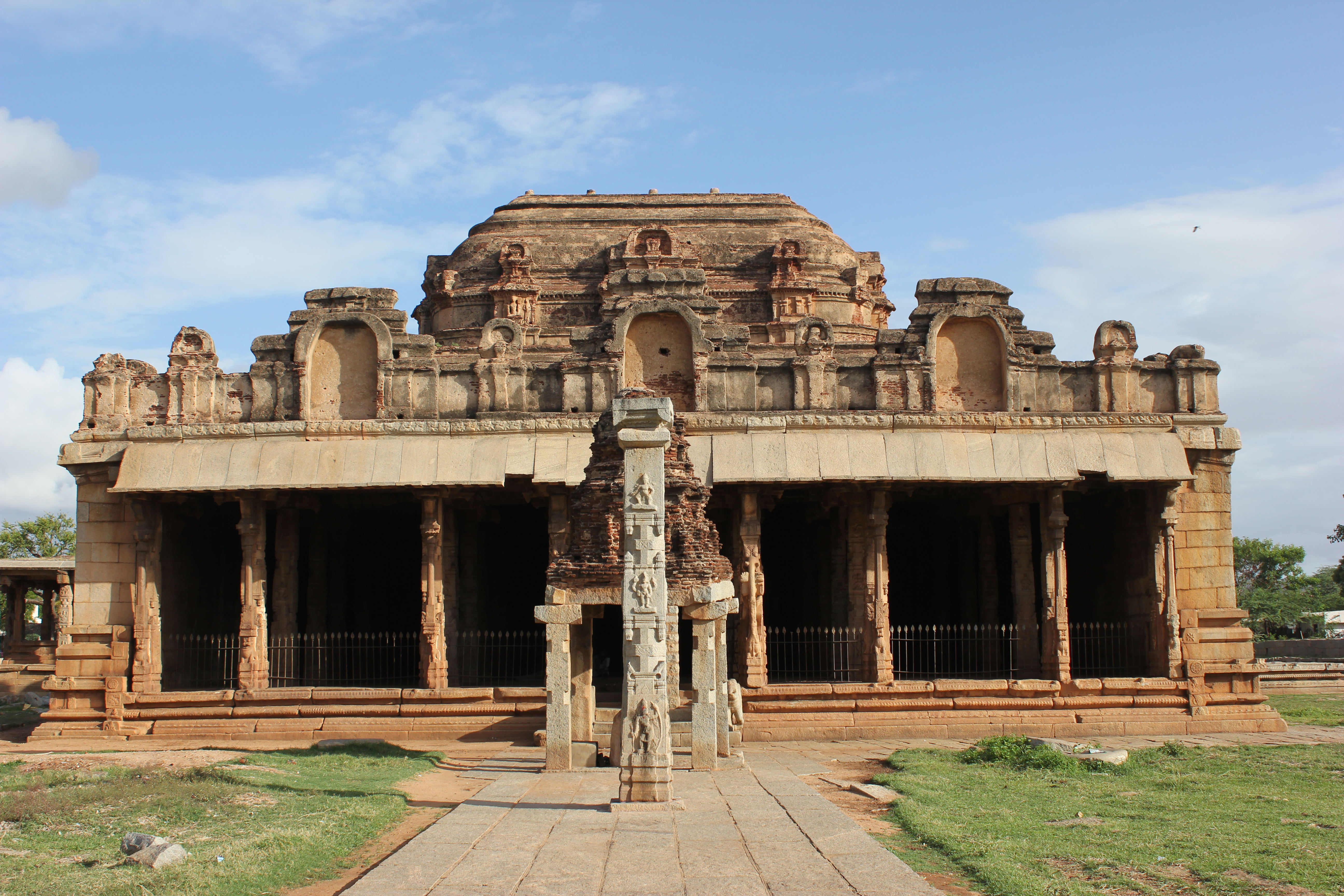 This photograph was taken by me at the Ananthasayana temple in Ananthasayanagudi, Bellary district, Karnataka state, India. The temple was constructed by King Krishnadeva Raya (1524 AD) of the Vijayanagara Empire, in memory of his deceased son.